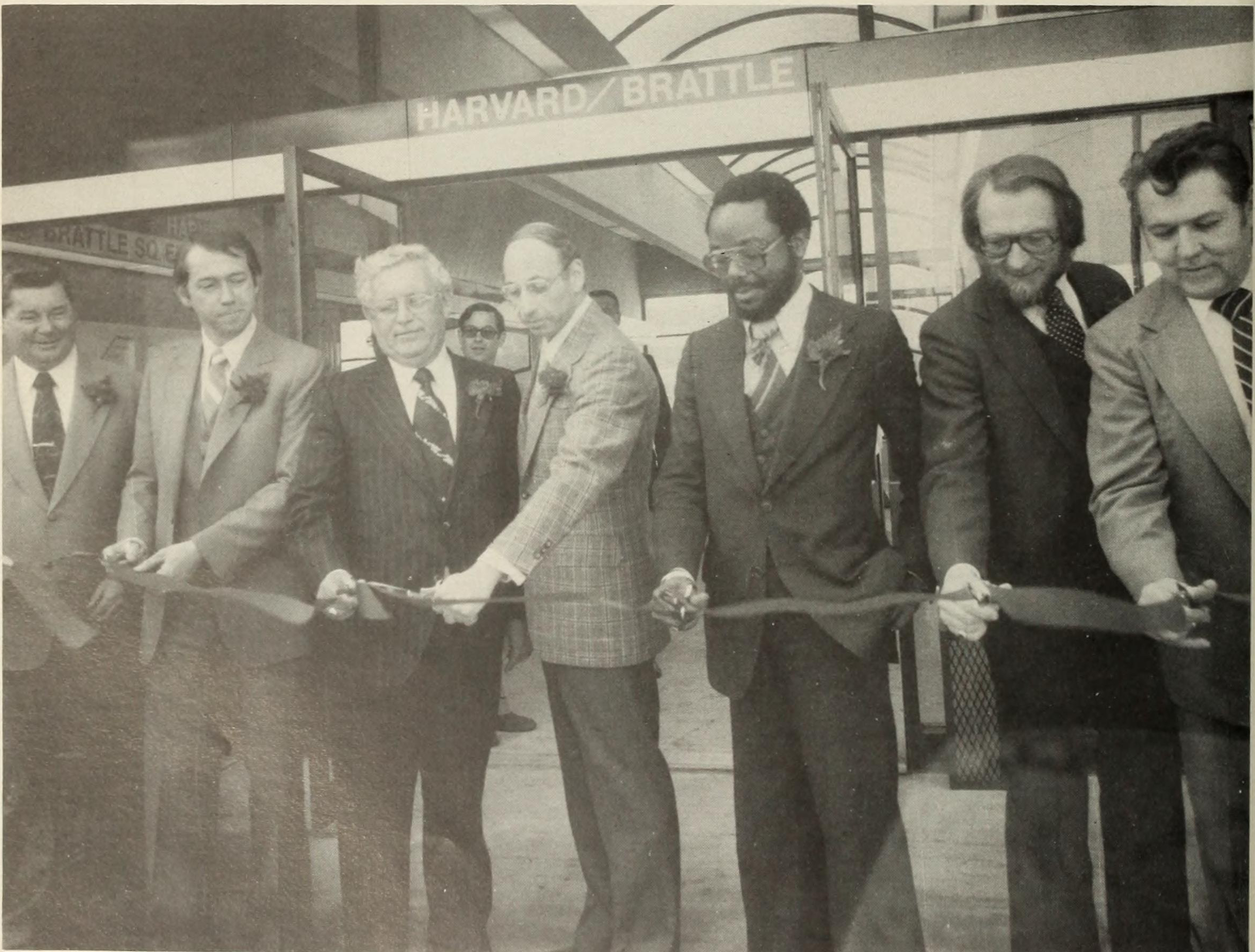 Ribbon cutting at Harvard/Brattle station in March 1979. Left to right: Francis M. Keville (Assistant Director of Construction - North), Robert L. Foster (MBTA Chairman and Chief Executive), Walter Sullivan (Cambridge City Councillor), Barry M. Locke (Massachusetts Secretary of Transportation and Construction), Theodore C. Landsmark (MBTA Board member), Reverend Edwin Lane (First Parish Church of Cambridge), and Warren J. Higgins (Director of Construction)